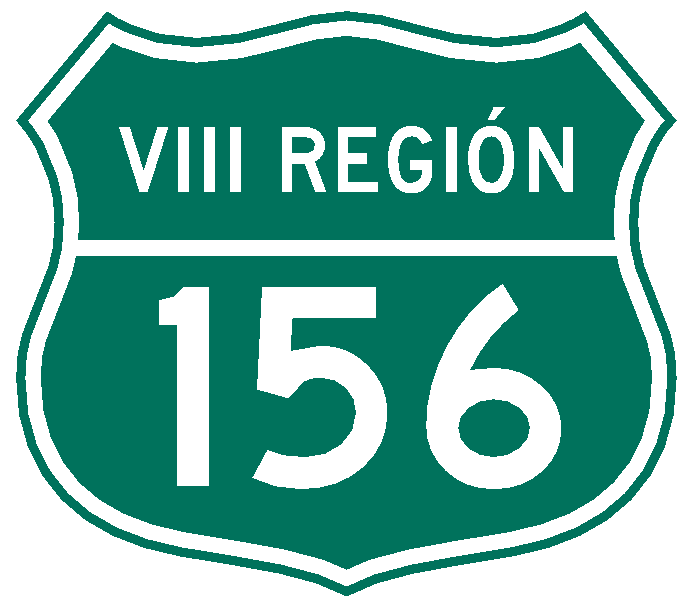 Escudo Identificador Ruta 156 Chile